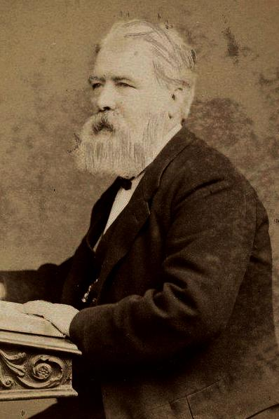 Thomas Rupert Jones' portrait